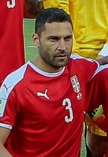 Serbia national football team